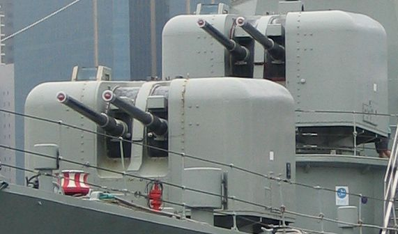 QF 4.5 inch naval gun on HMAS Vampire (D11) Daring Class destroyer at the Australian National Maritime Museum, Sydney, NSW, Australia.